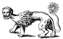 The Mantichora — The most remarkable of allegorical creatures was the mantichora, which Ctesias describes as having a flame-colored body, lionlike in shape, three rows of teeth, a human head and ears, blue eyes, a tail ending in a series of spikes and stings, thorny and scorpionlike, and a voice which sounded like the blare of trumpets. This synthetic quadruped ambled into mediaeval works on natural history, but, though seriously considered, had never been seen, because it inhabited inaccessible regions and consequently was difficult to locate [1].